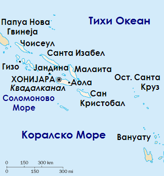 Map of the Solomon Islands on Macedonian language.